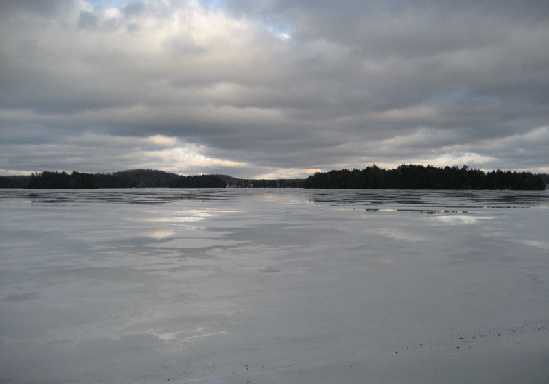 A frozen Paudash Lake, taken at Joe Bay on March 26, 2007.